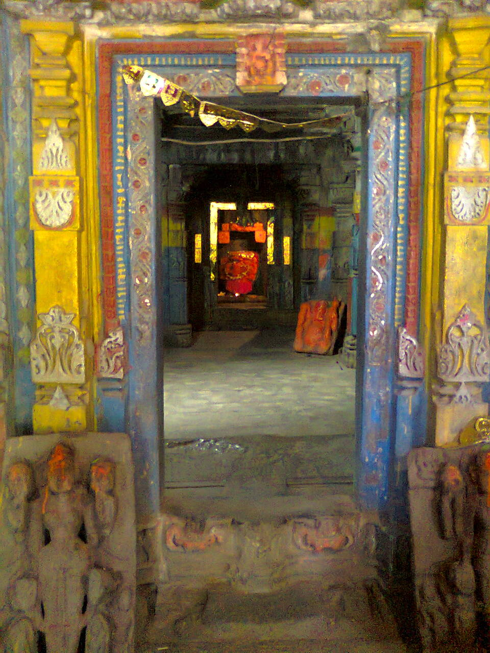 The entrance of middel hall